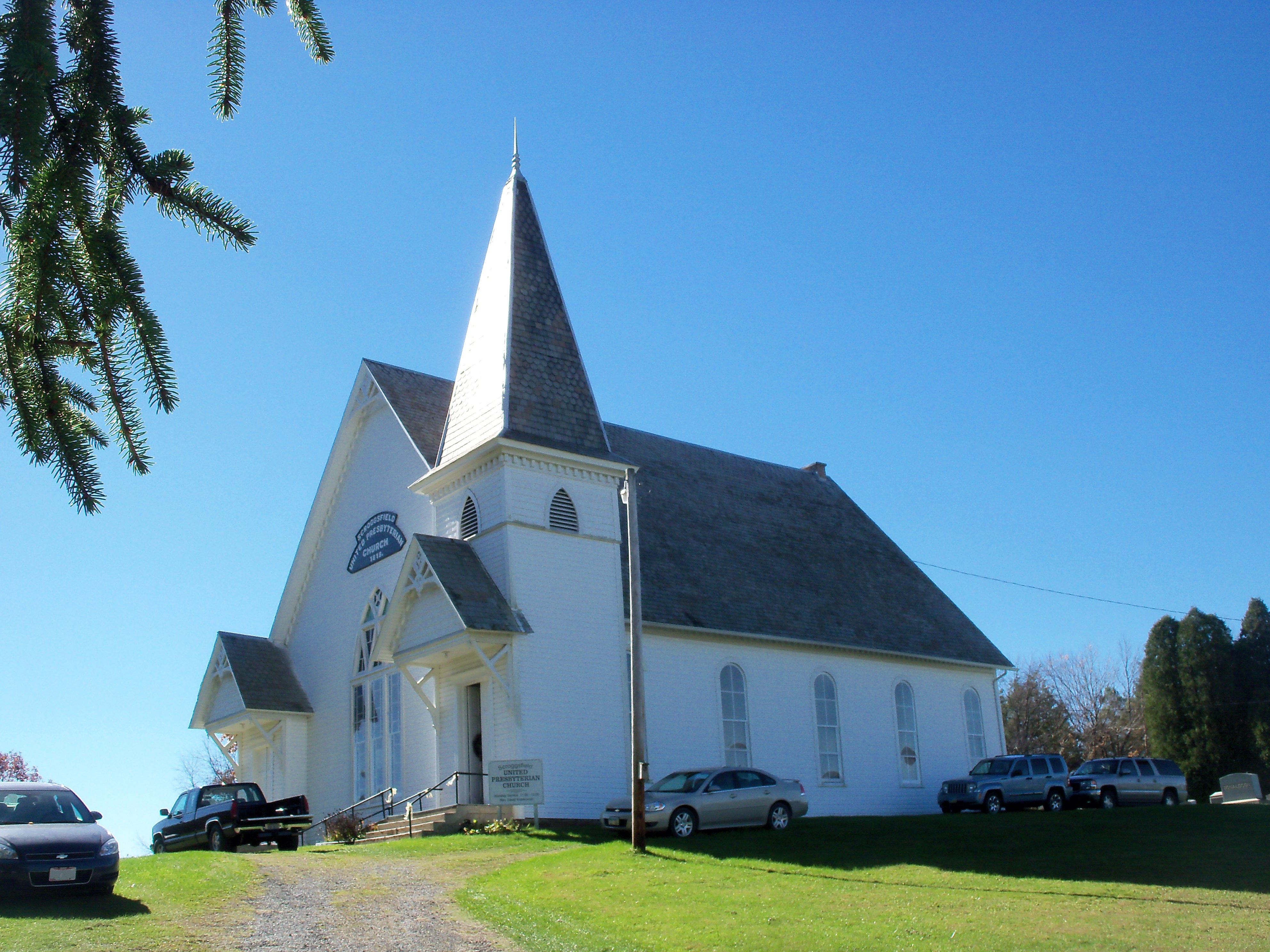 The Scroggsfield, Ohio United Presbyterian Church, established 1818.